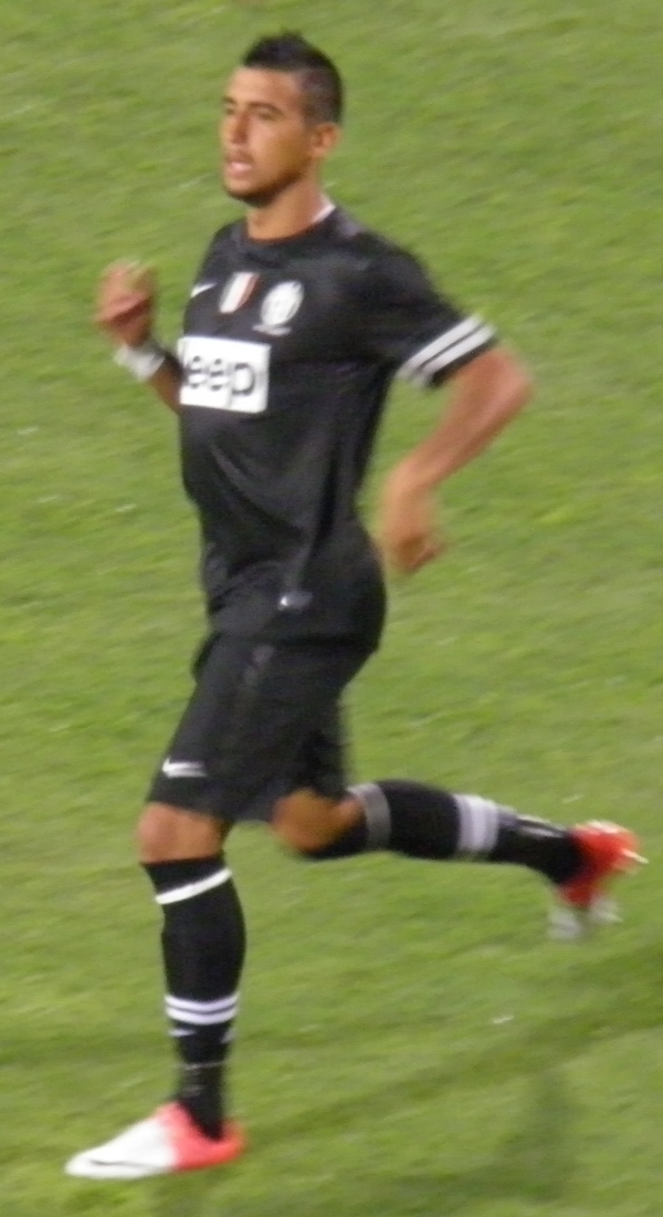 Arturo Vidal during the friendly match Juventus-Málaga played in Salerno